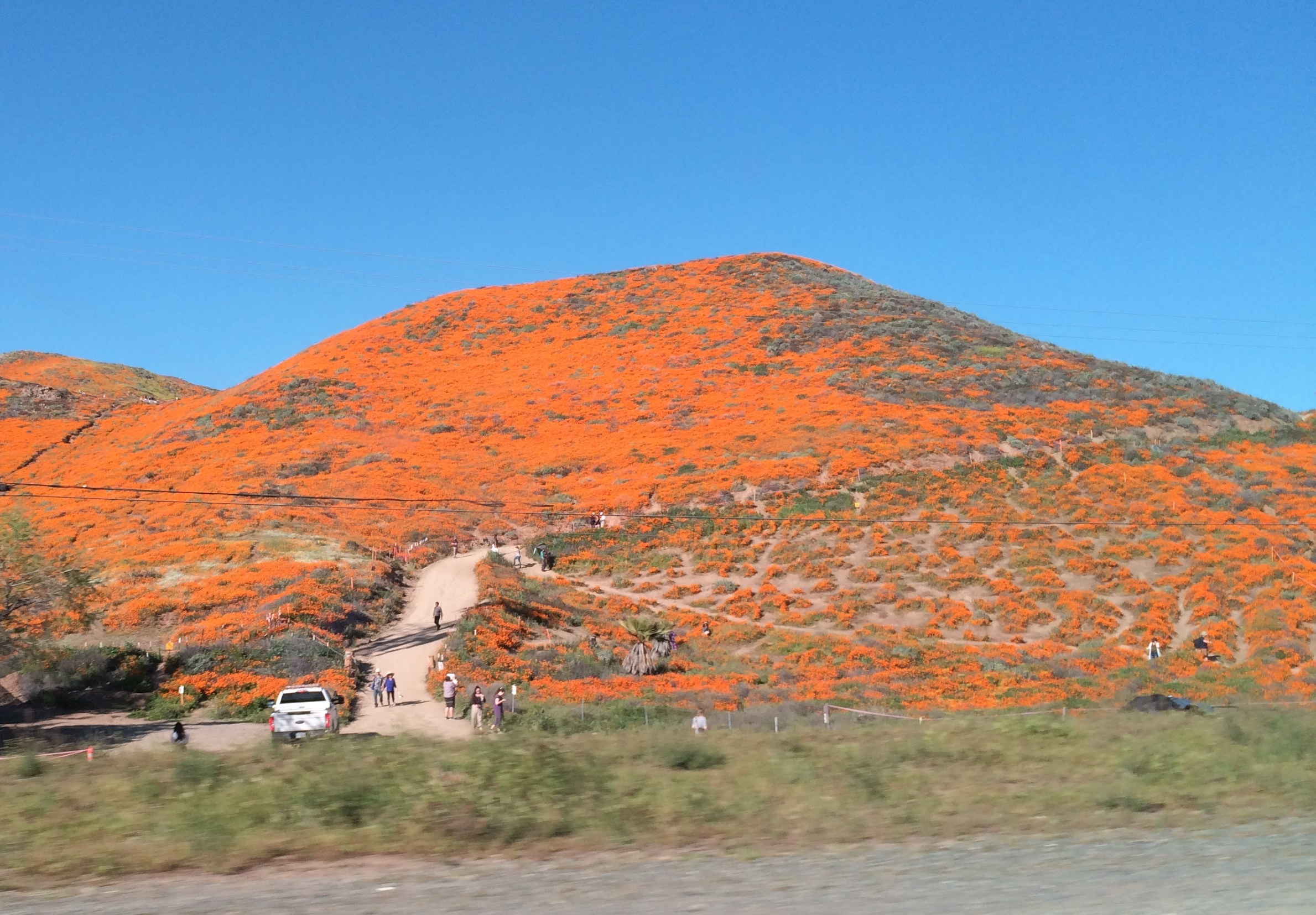 Photo taken from I-15 heading northbound, looking east in Walker Canyon on March 17, 2019. Just hours before officials shut down the viewing and parts of the event.